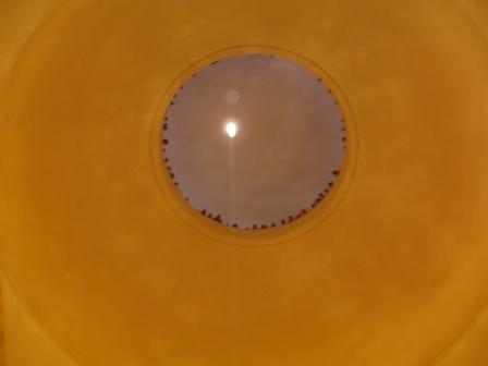 A ray of light through the aperture of the Voortrekker Monument in Pretoria, Gauteng Province, South Africa; associated by some with Aten and Egyptian symbolism.